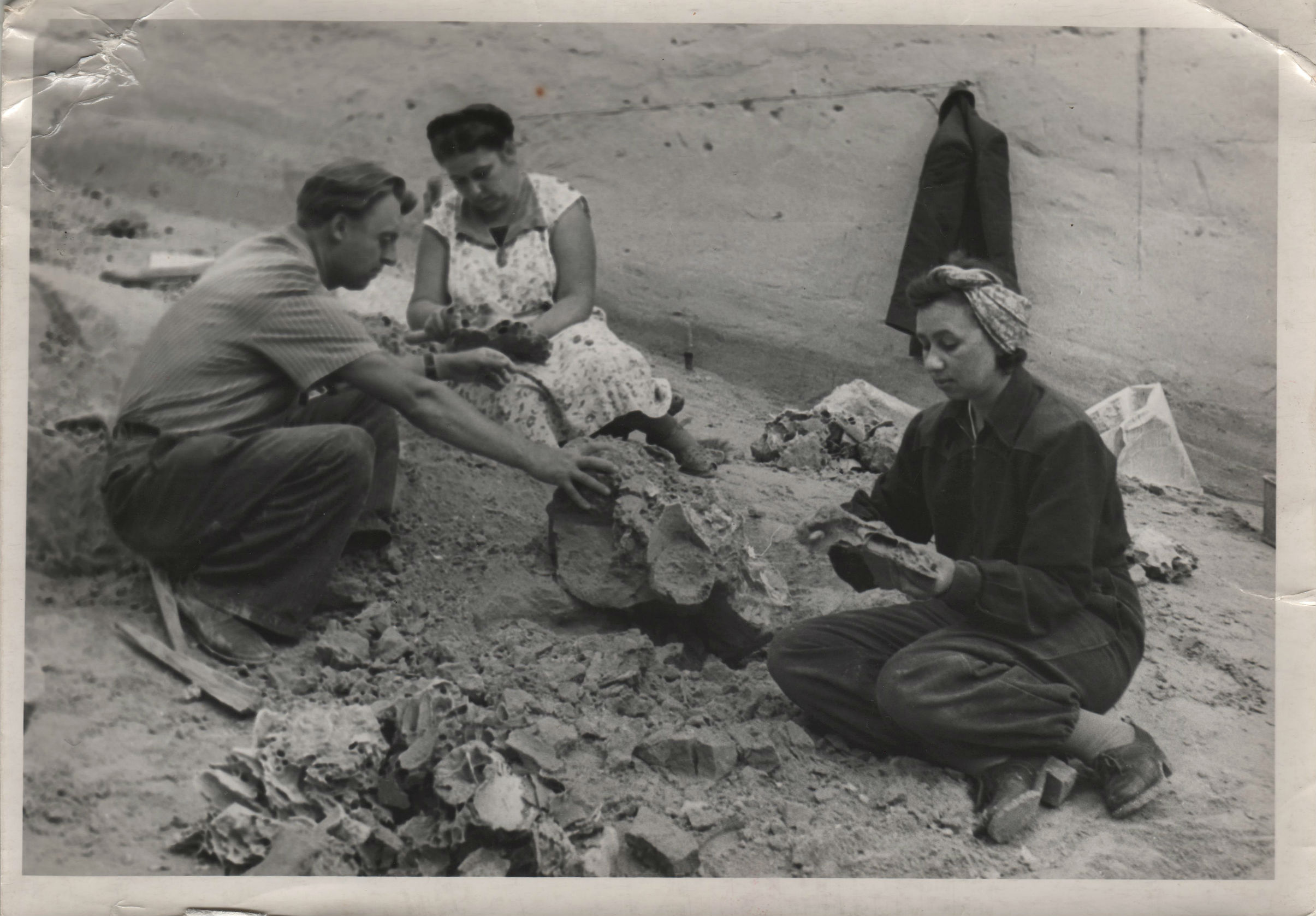 Archeologists Ivan Gavrilovic and Anna M. Shovkoplyas (next) on the excavation